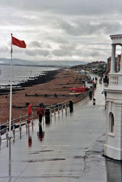 Promenade, Bexhill-on-Sea, Sussex, looking towards Eastbourne.